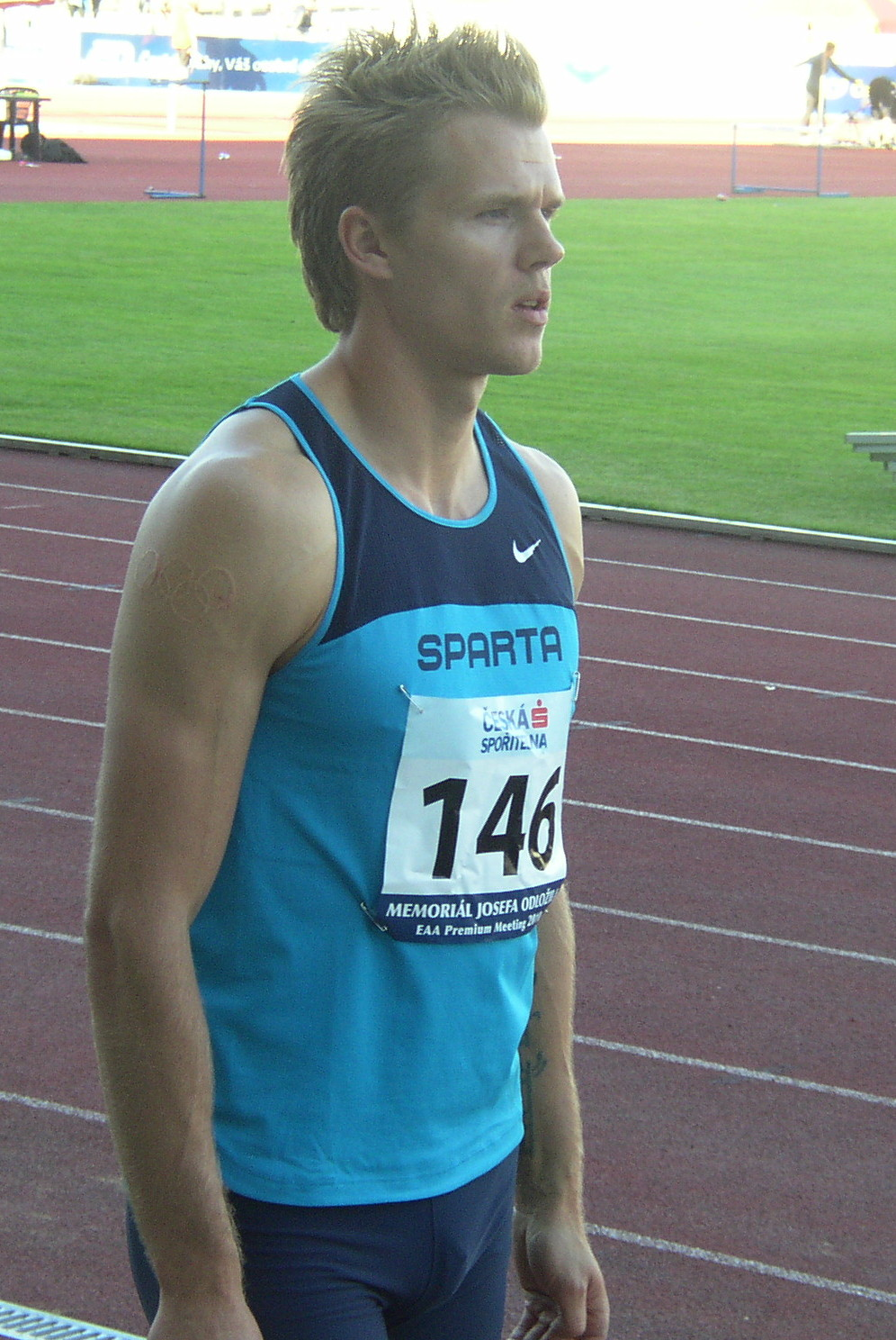 Athlete Morten Jensen of Denmark preparing for his attempt in long jump at 17th edition of the Josef Odložil Memorial (EAA Premium Meeting, Na Julisce Stadium, Prague, Czech Republic, 14 June 2010). Novotný ranked second in the competition with 7.96 m mark.